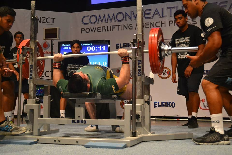 184kg bench